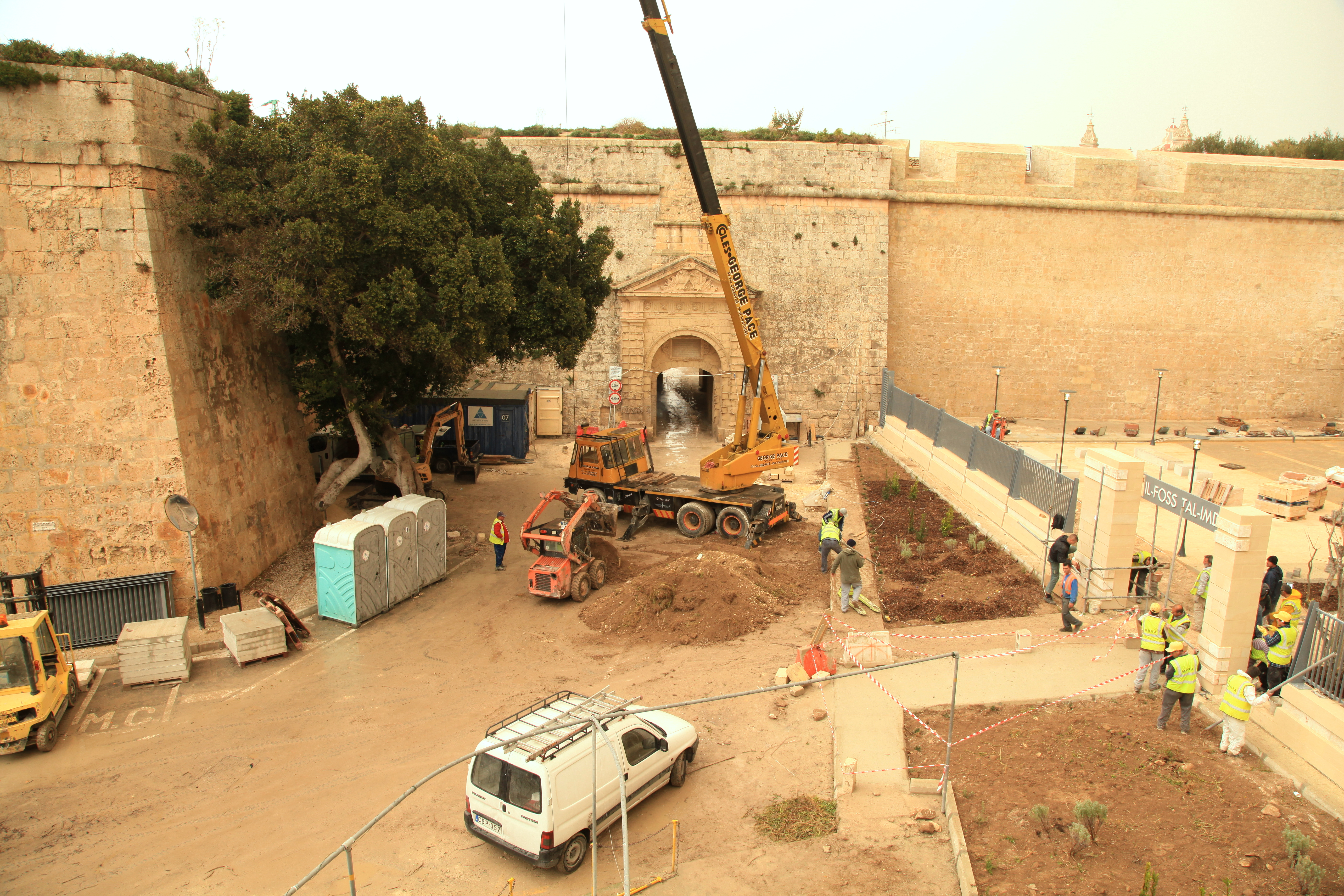 Construction works at Il-Foss tal-Imdina in the Lorenzo Calleja ditch at the Inner Greek's Gate in Mdina, Malta